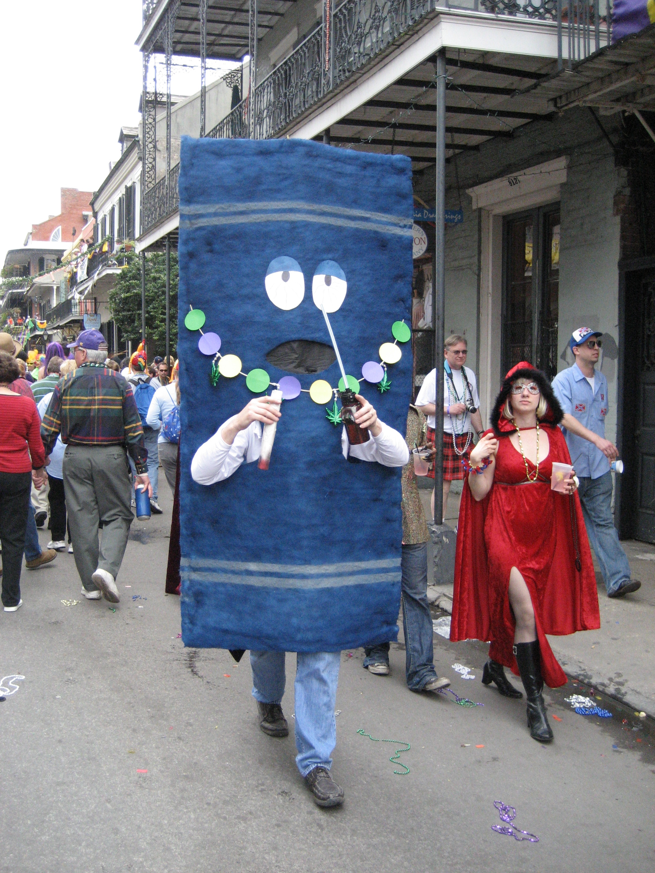 New Orleans, Mardi Gras Day: Street costumers dressed as "Towlie" (from tv cartoon South Park) and Red Riding Hood Photo by Infrogmation, Mardi Gras Day 2007